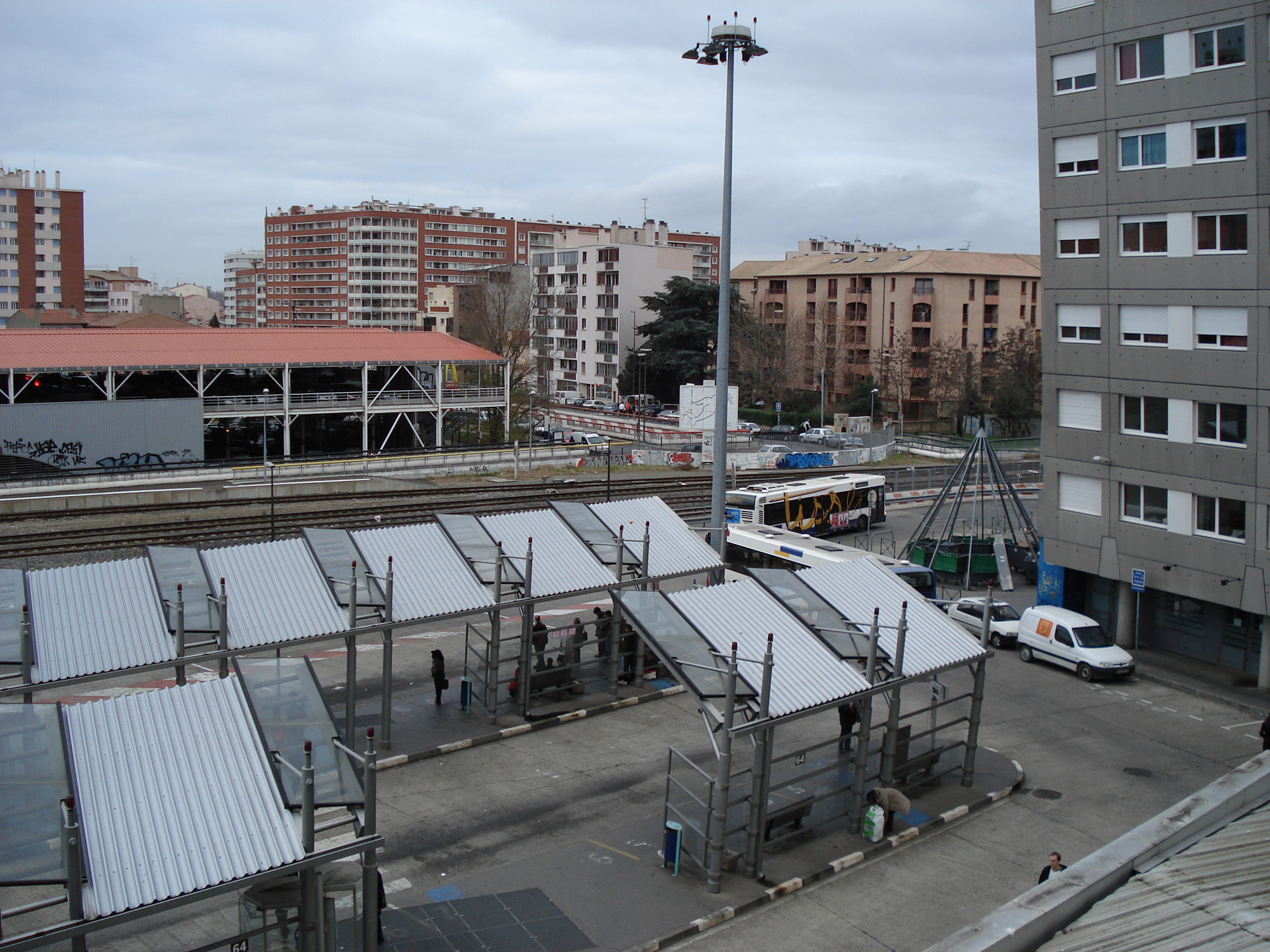 View of Arènes forum (north part : bus and railway station), Toulouse, France